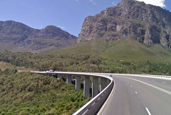 Hugos River Viaduct on N1 Highway South Africa